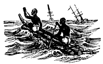 Traditional catamaran